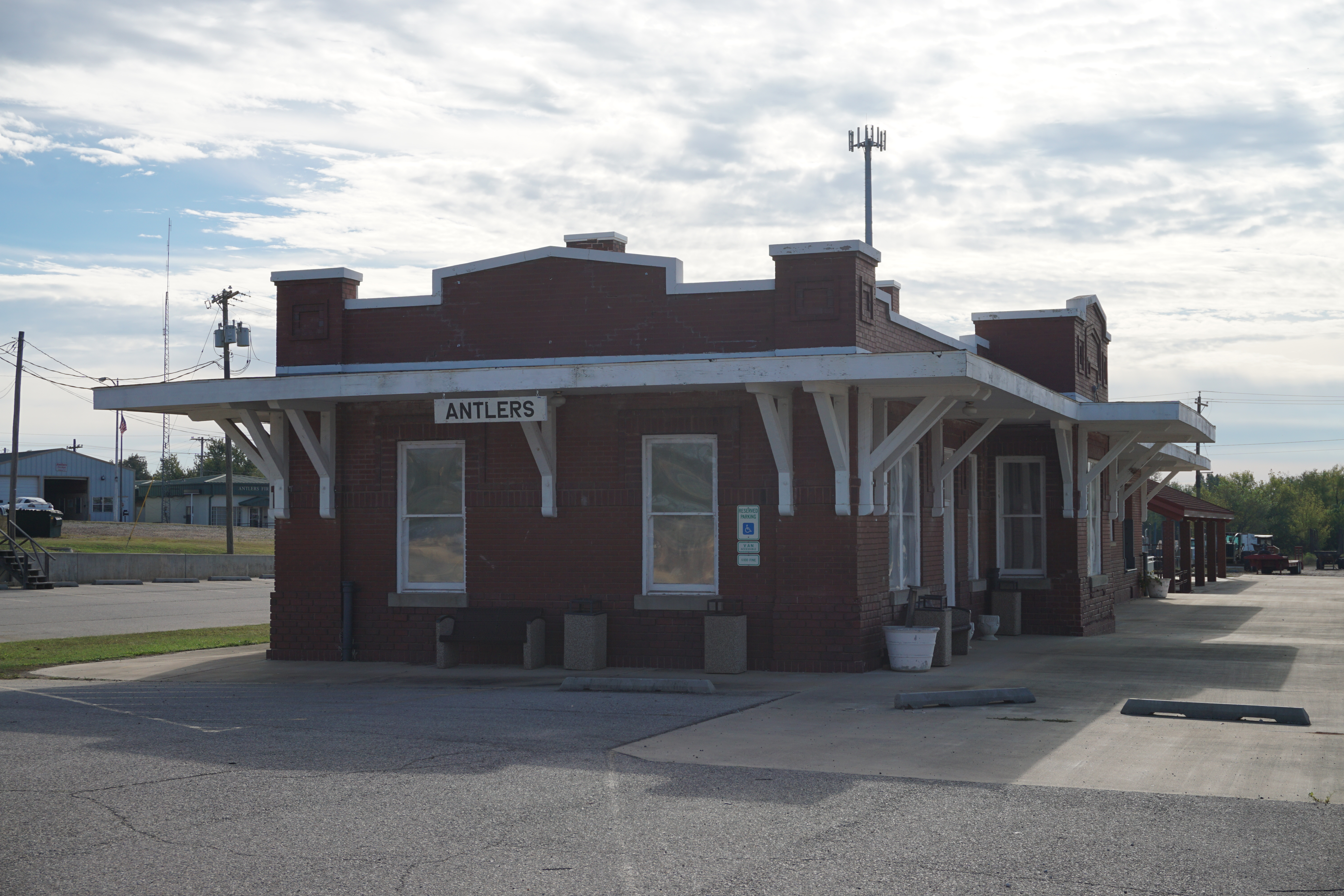 The Antlers Frisco Depot in Antlers, Oklahoma (United States).